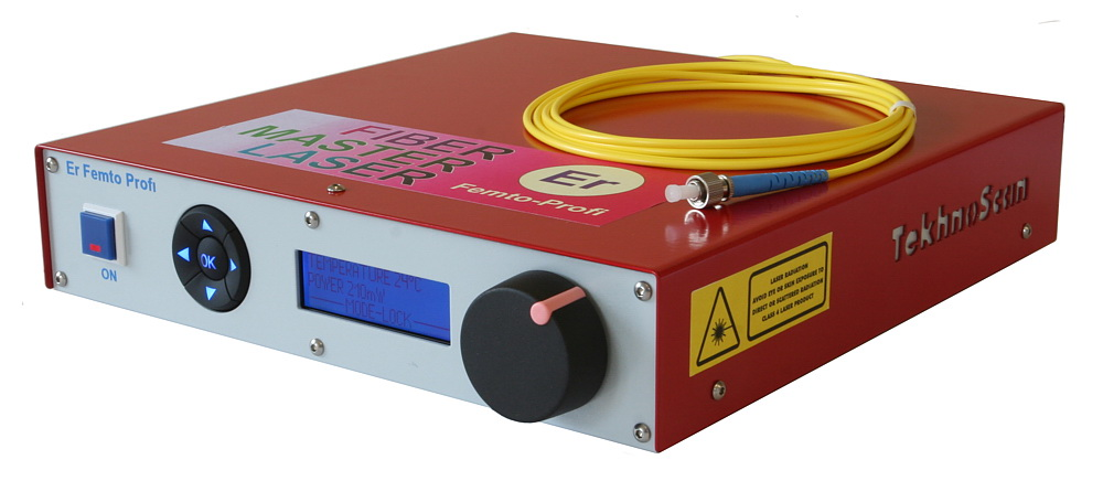 All-fiber femtosecond laser, "Erbius-Femto"